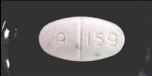 Counterfeit fenfluramine-containing tablet seized in Kansas